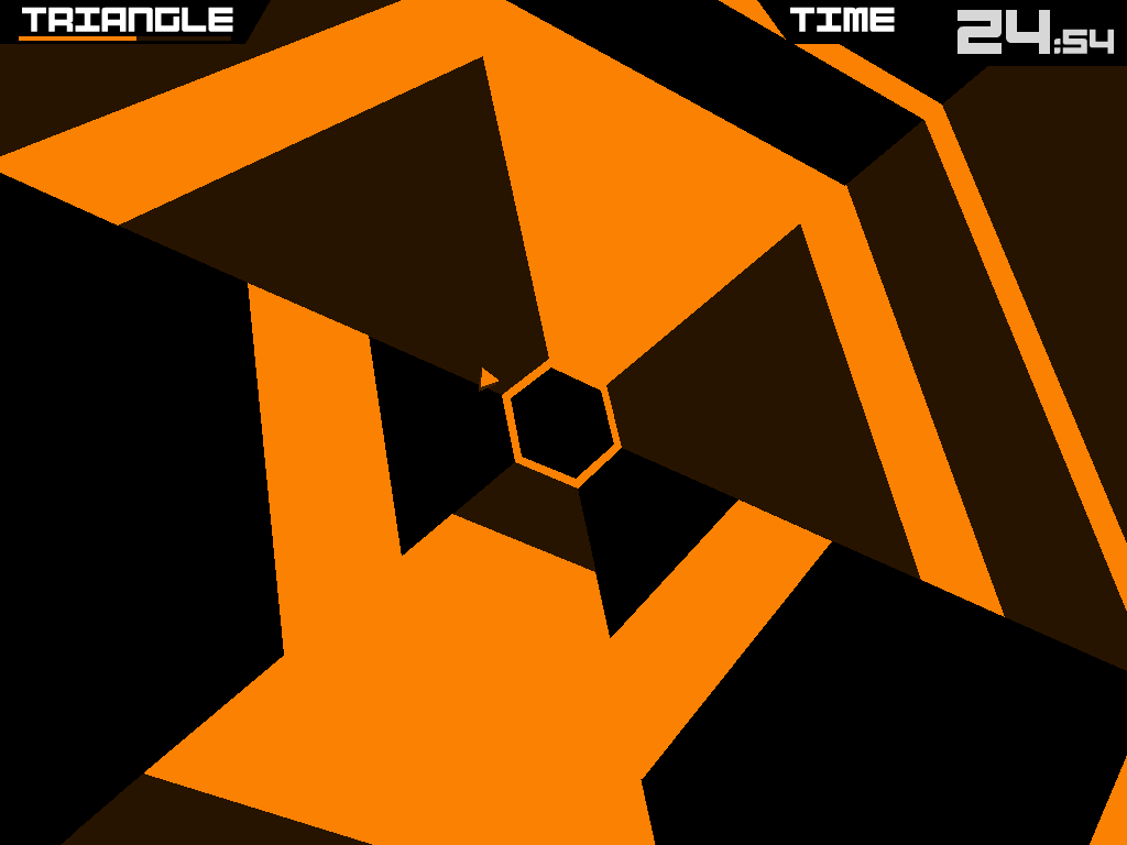 Super Hexagon iPad version screenshot, depicting the Hexagoner difficulty level. Released in 2012, the game was developed by Terry Cavanagh.